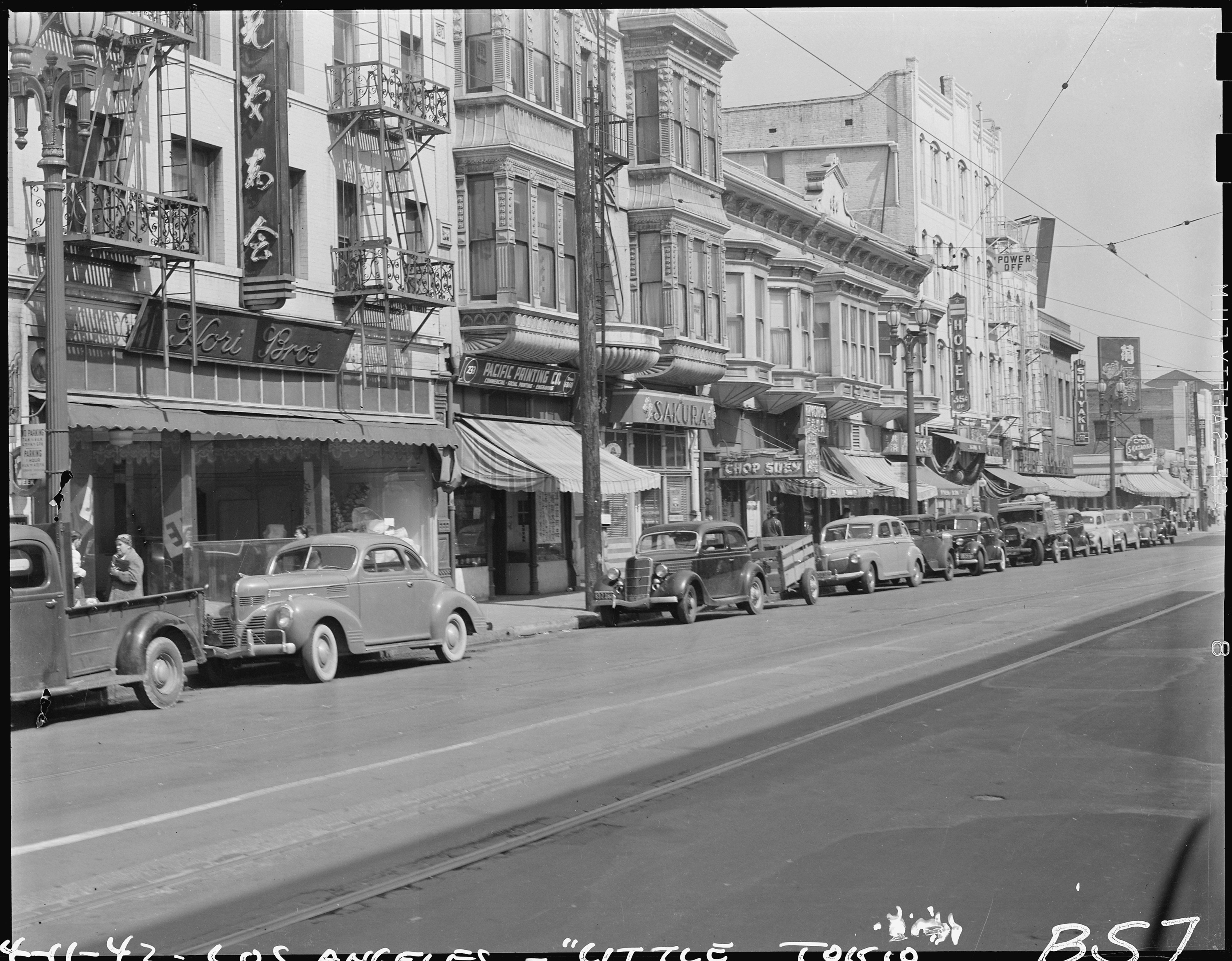 Scope and content: The full caption for this photograph reads: Los Angeles, California. Street scene in "Little Tokyo" near the Los Angeles Civic Center, prior to evacuation of residents of Japanese ancestry. Evacuees will be assigned to War Relocation Authority centers for the duration.